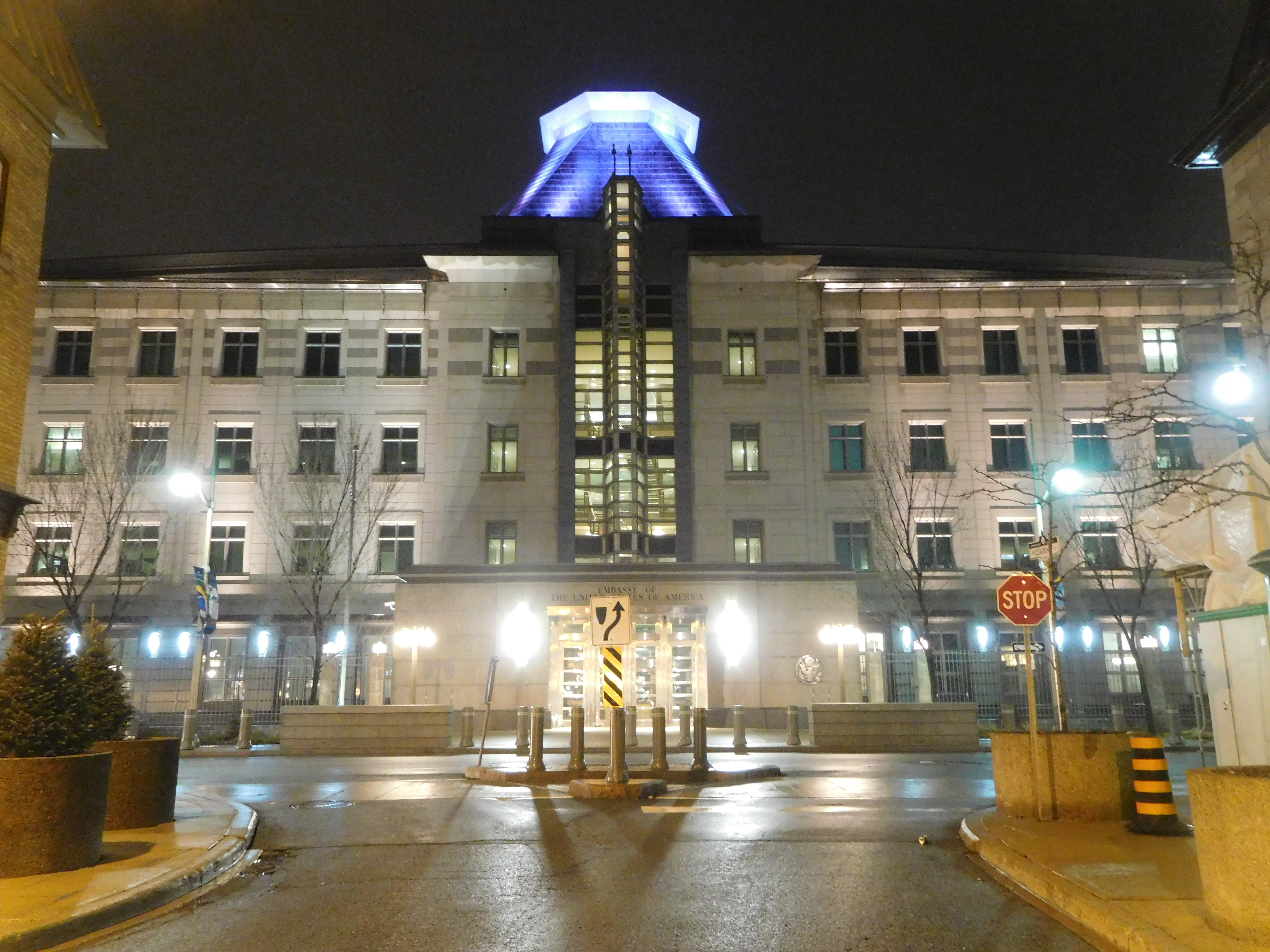 Embassy of the United States of America, 490 Sussex Drive, Ottawa